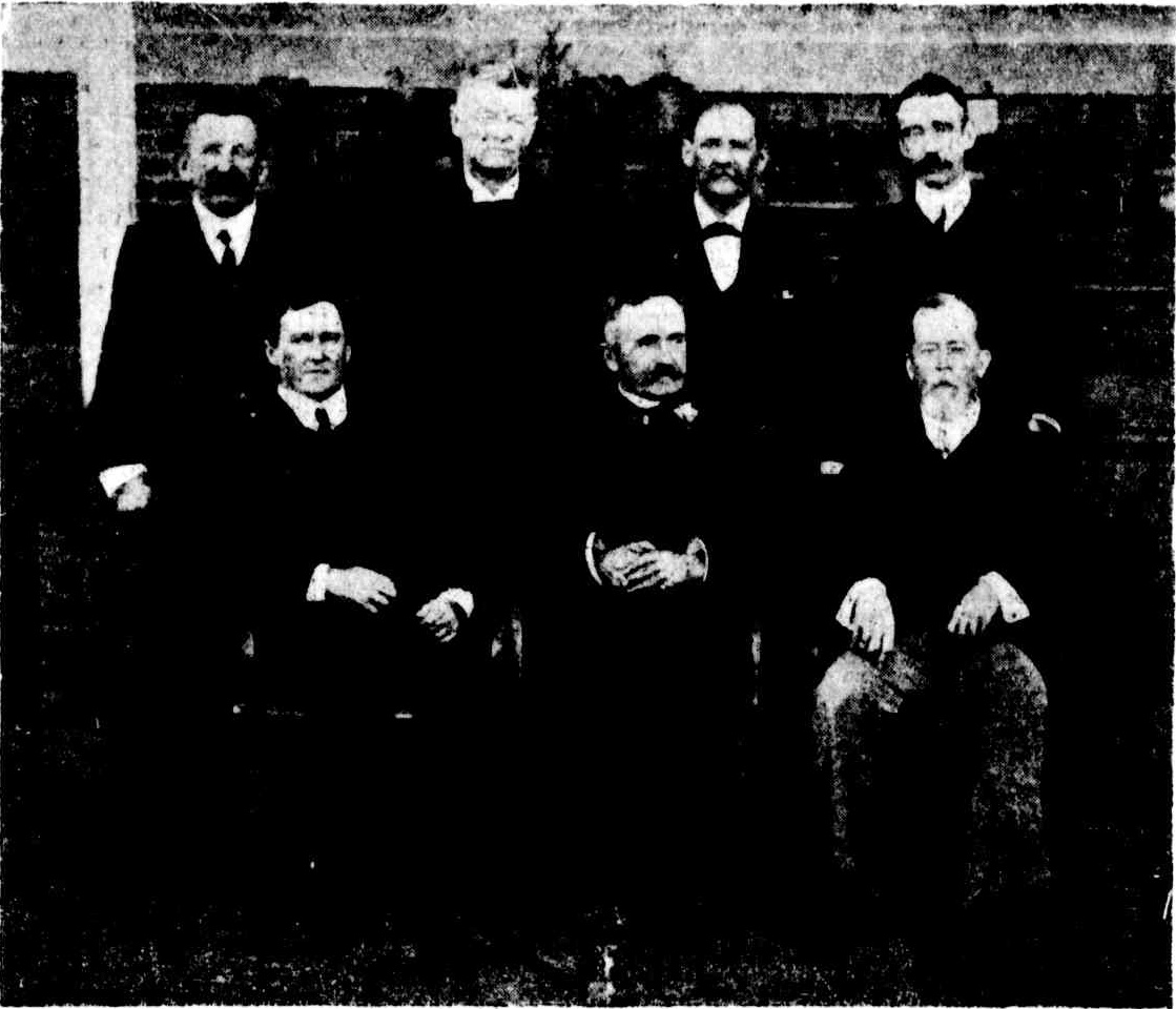 Committee of the Maryborough Central State School. Seated : H. Maxwell (secretary), W. C. Harvey (chairman), W. M'Watters. Standing : E A. Smith, H. A. Maclean, A. Dunn, C. F. Sheldon.